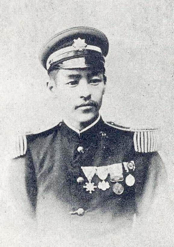 七里恭三郎 Nanasato Kyōsaburō